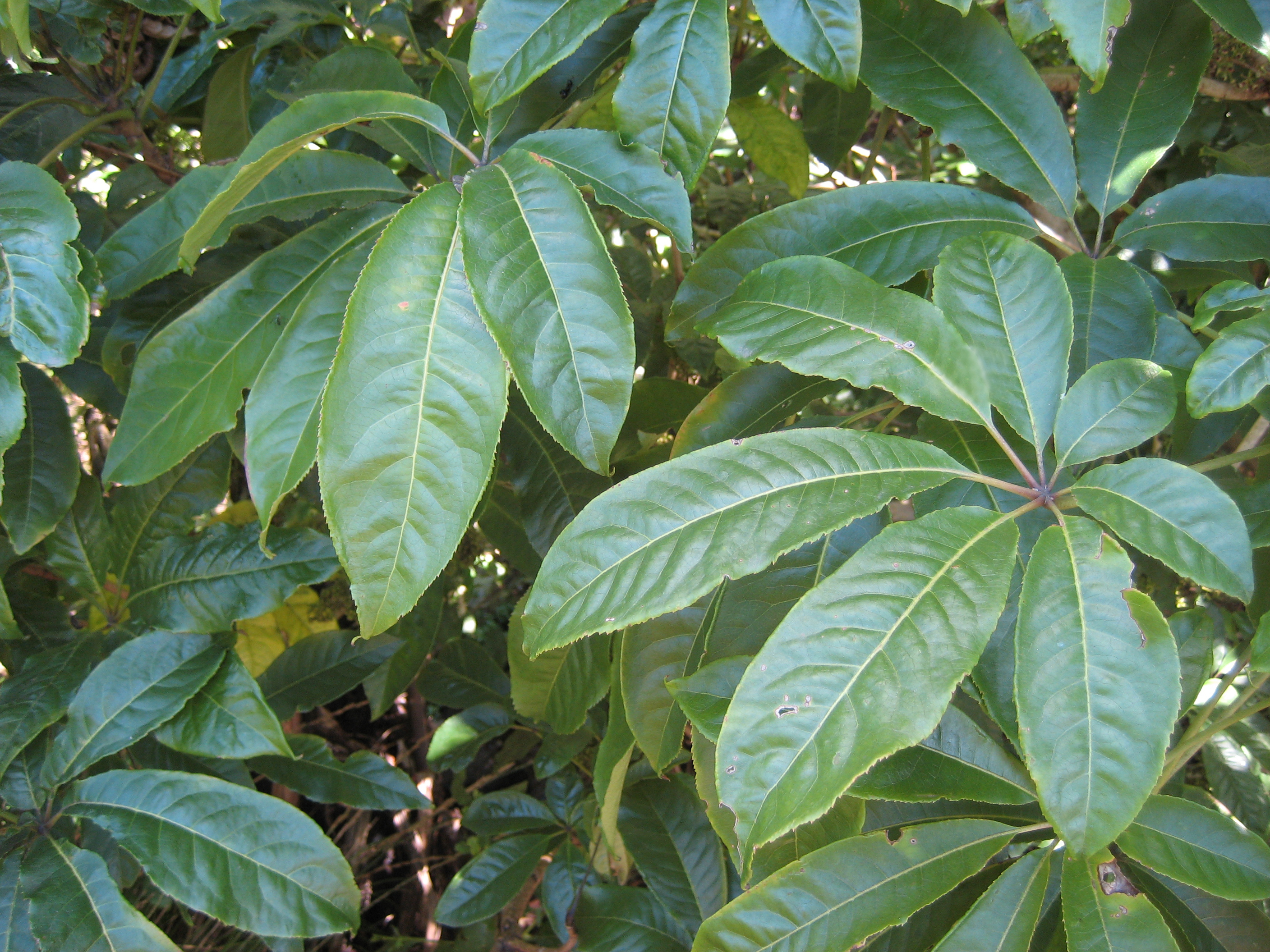 Schefflera digitata, endemic to New Zealand. Common name Patē, Patete, or sometimes Seven-finger.